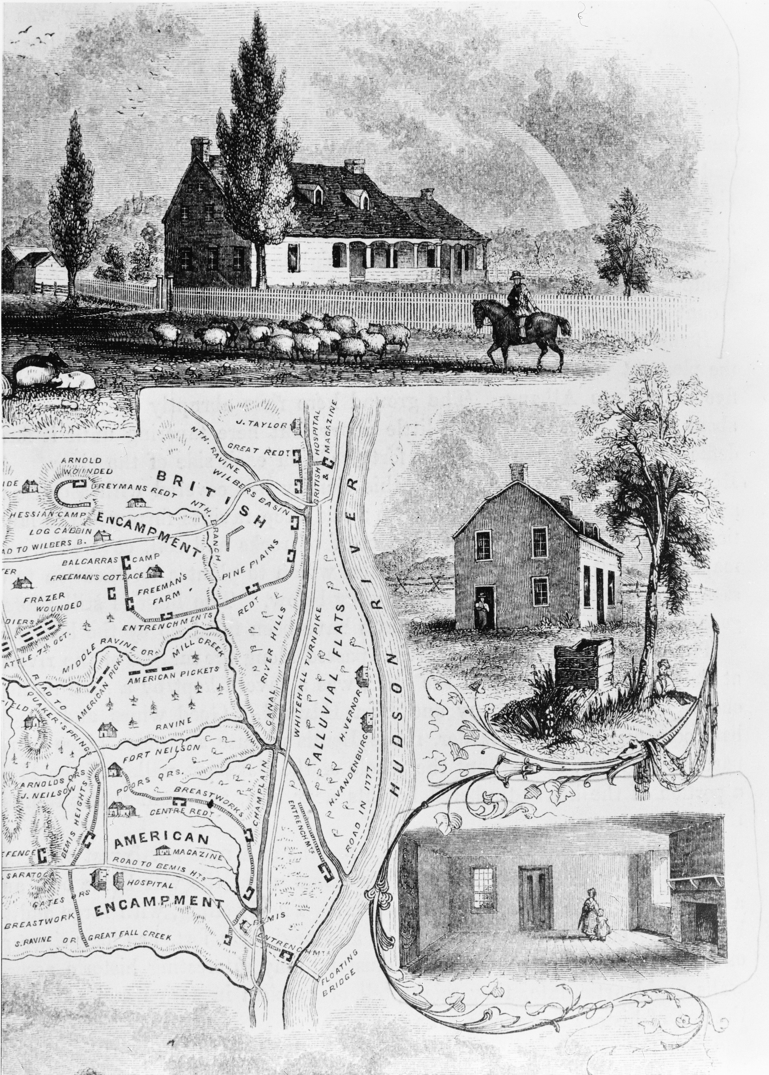 John Neilson House, Bemis Heights, Stillwater, Saratoga County, NY. Situated within the American entrenchments on the Saratoga battlefield, it served as the headquarters for the Generals Enoch Poor and Benedict Arnold during the Saratoga campaign. As a building it is representative of the early frontier settlements of the upper Hudson valley. Print from Benson Lossing's Pictorial Field Book of the Revolution, 1851, p. 48, shows plan of battlefield and views of John Neilson's House from south, east and inside. REPOSITORY: Library of Congress, Prints and Photograph Division, Washington, D.C. 20540 USA. Public Domain.